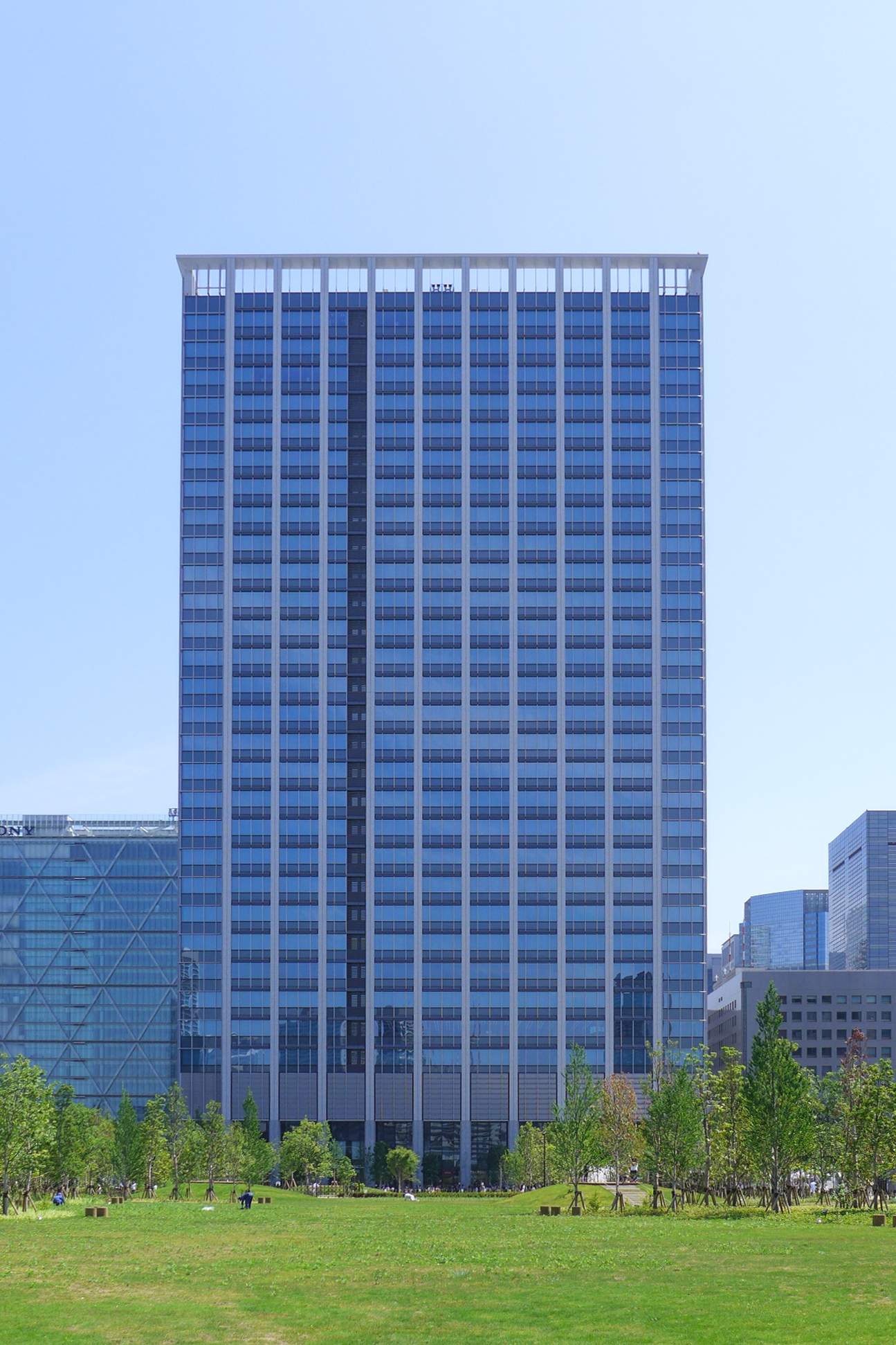 Shinagawa Season Terrace